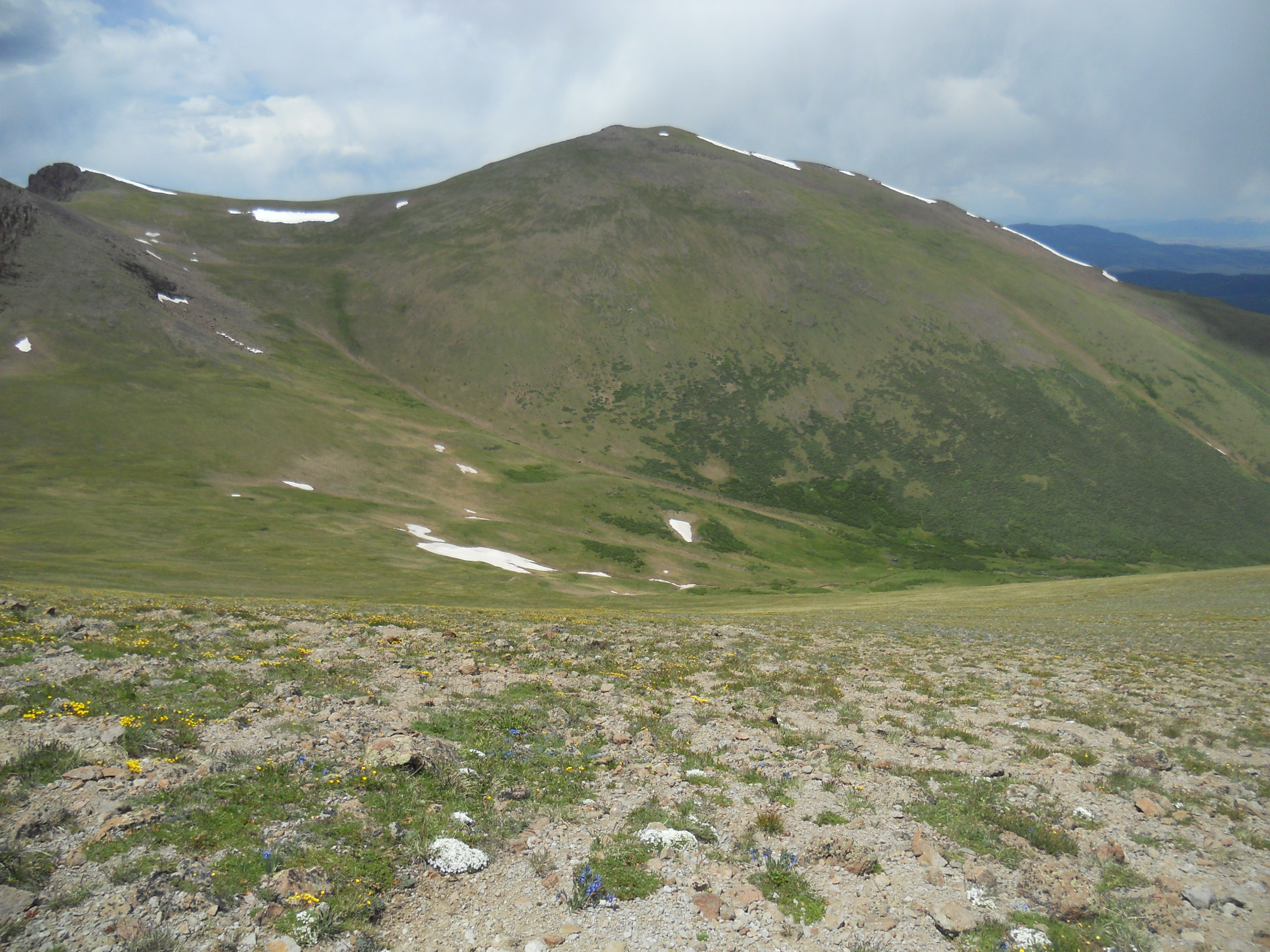 Stewart Peak as viewed from the south. This 13,990 ft (4,264 m) mountain is located in the La Garita Wilderness of the Gunnison National Forest.